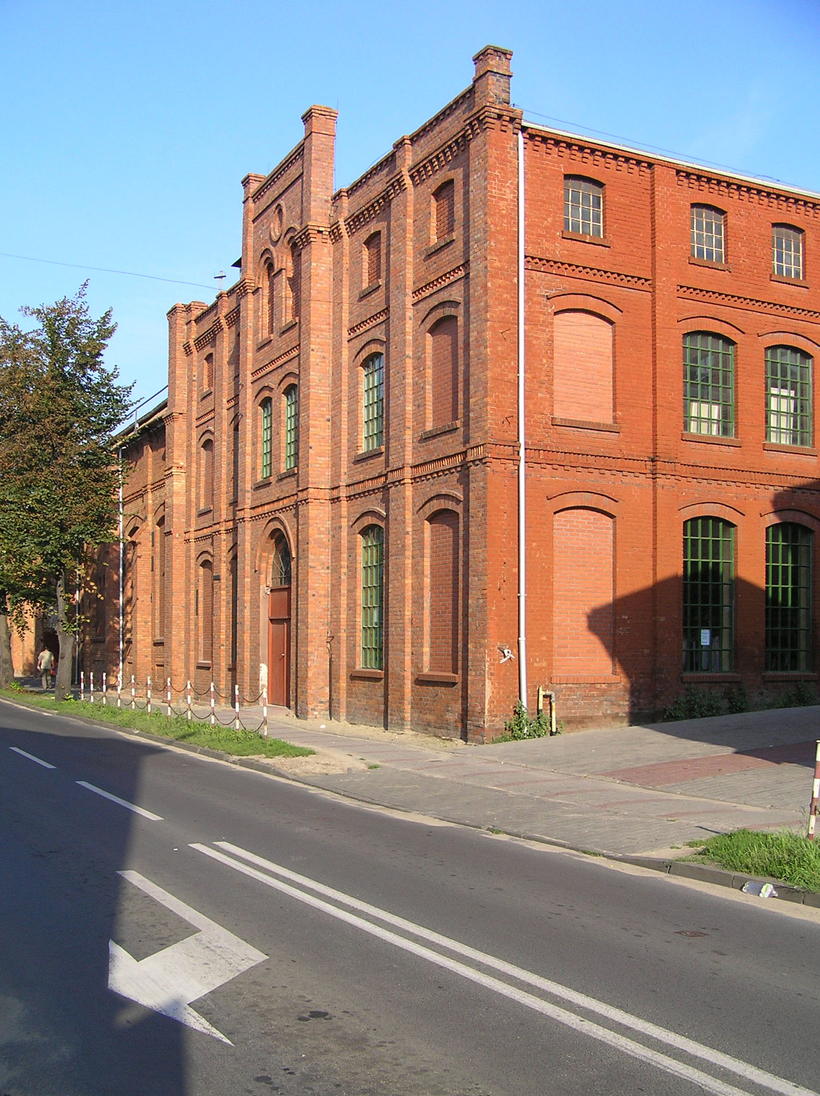 Toruń, Mokre district, former Born & Schütze factory